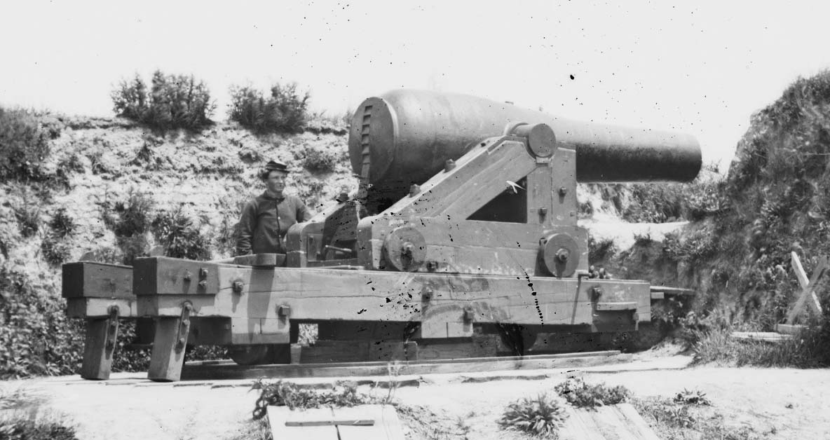 Dutch Gap Canal, James River, Virginia (vicinity). Interior of Fort Darling. (Columbiad gun)